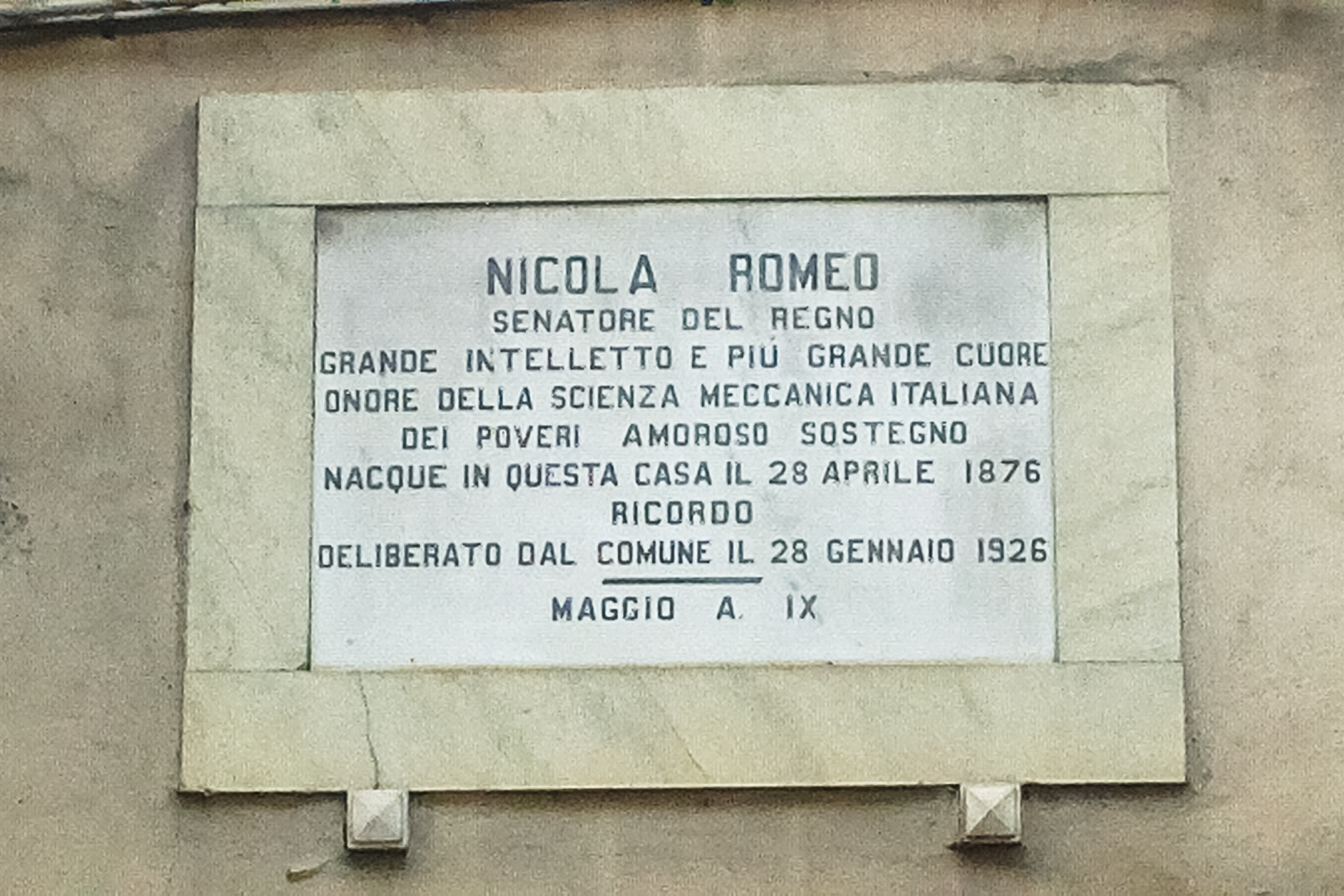 An honourable plate dedicated to Nicola Romeo at his birth home, in Sant'Antimo, in the Province of Naples.